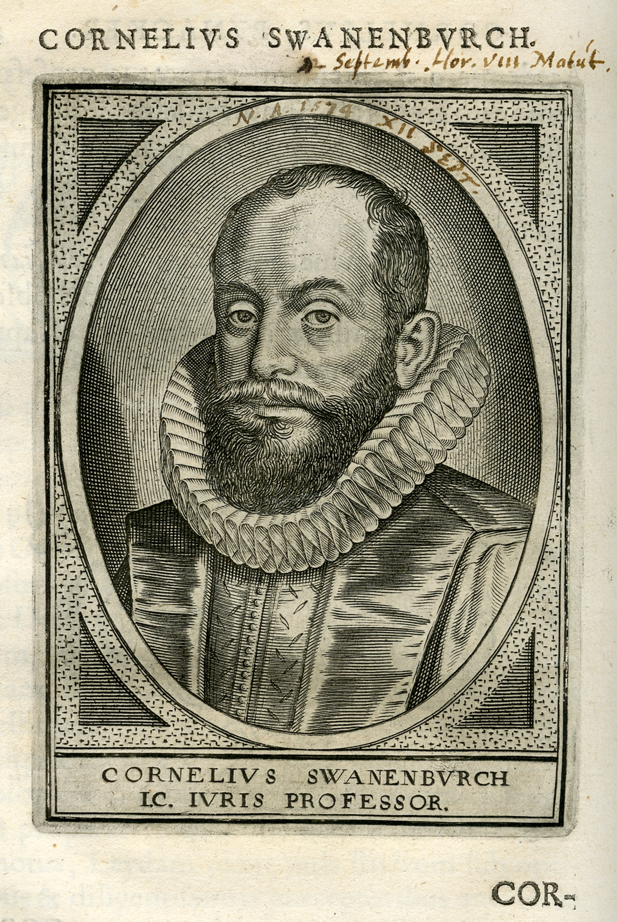 Cornelius Paulinus Swanenburg (1574-1630), professor Leiden University (law)